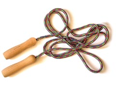 boxing